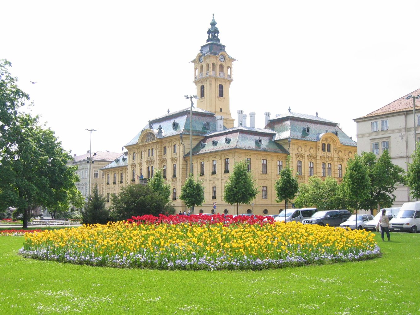 Szeged city hall